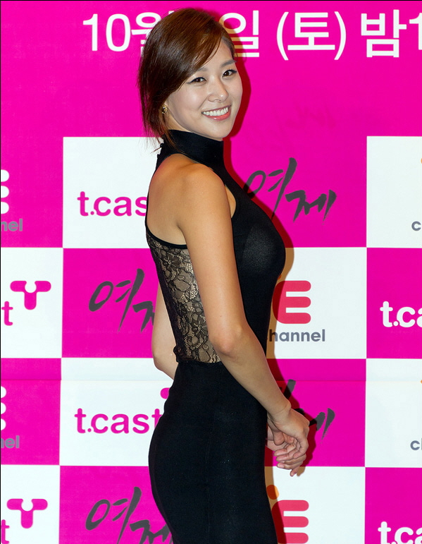 Jang Shin-Young at The Empress premiere, in Sep 2011